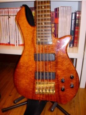 Zon Bass